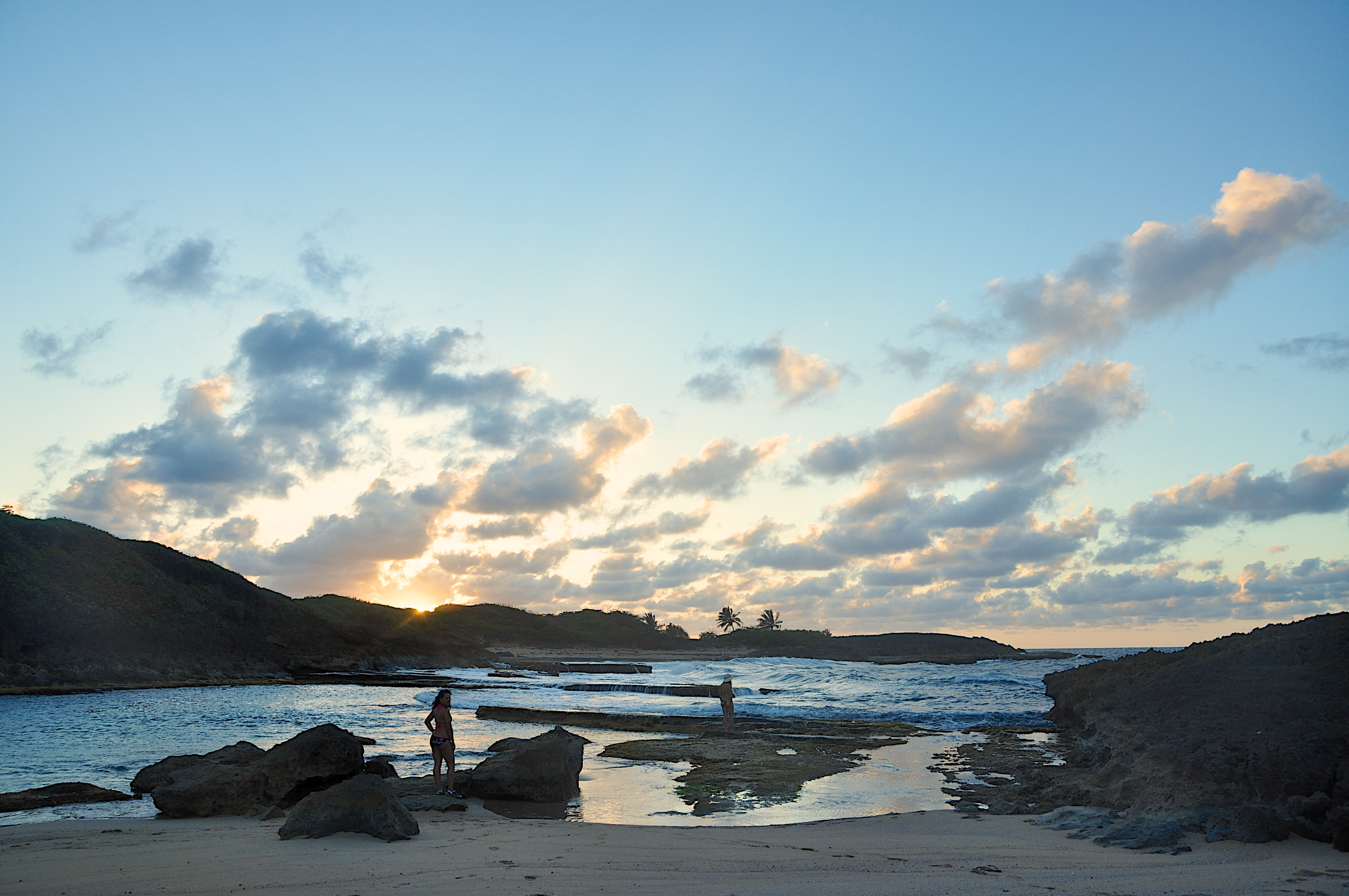 secluded beach at sunset, Manati, PR